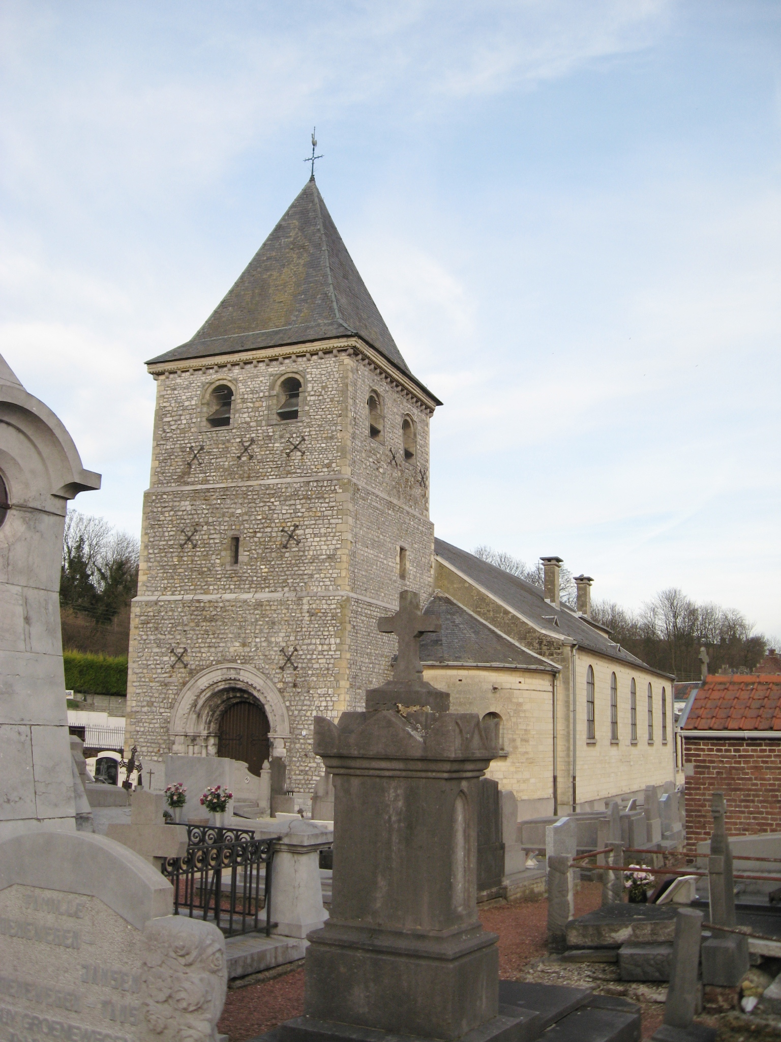 Church of Saint Lambert in Wonck, Bassenge, Liège, Belgium